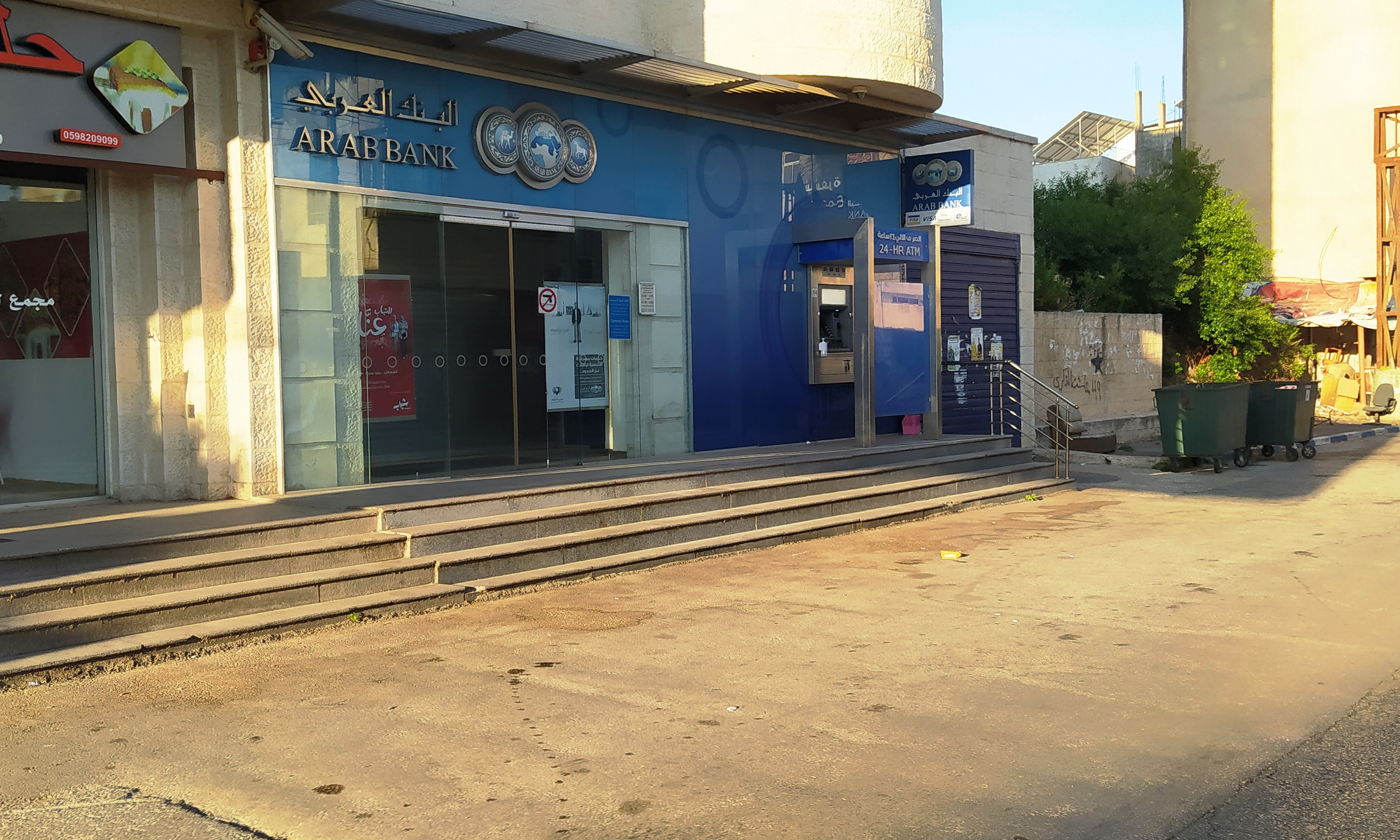 Arab Bank branch in Salfit city, State of Palestine